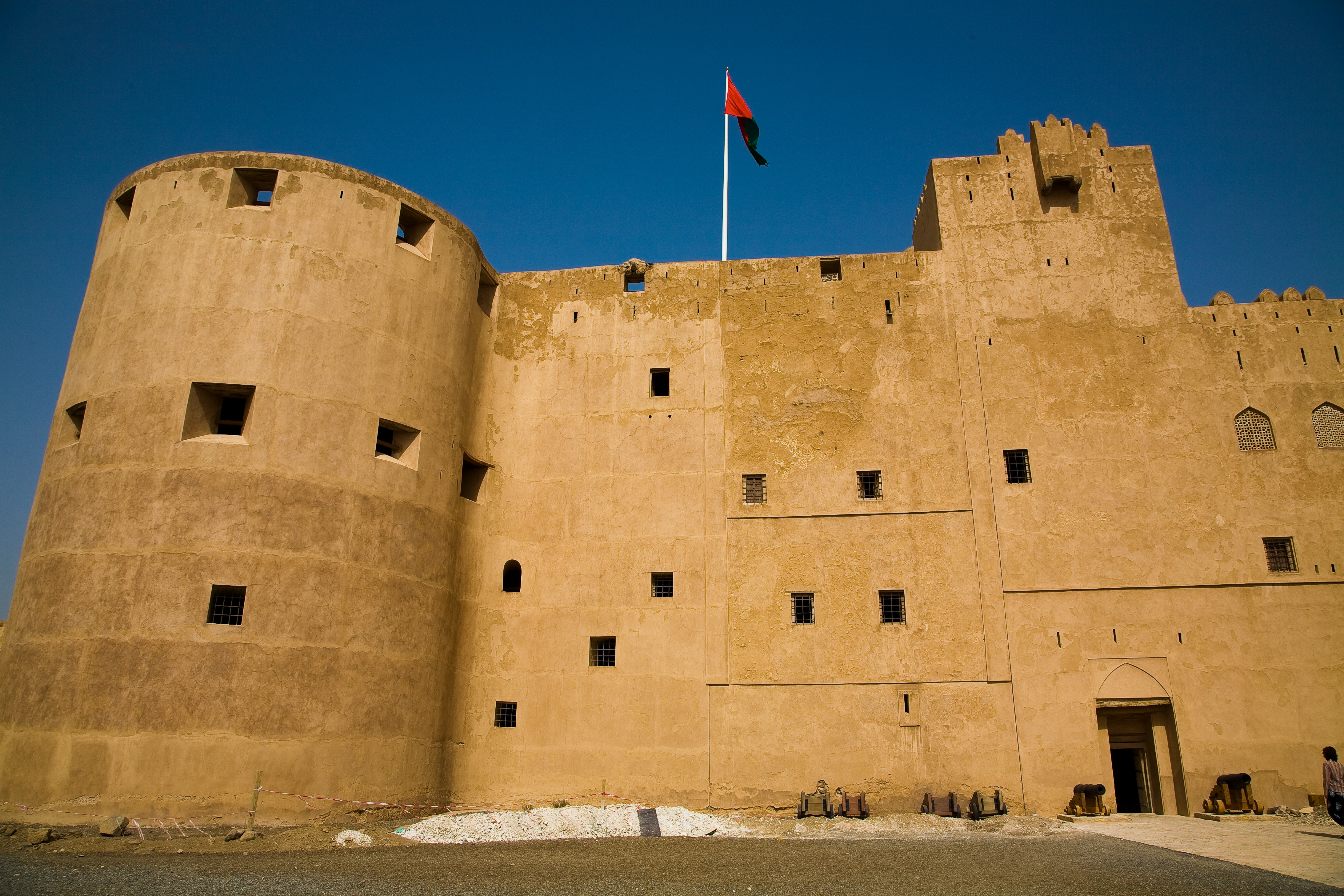 Nizwa, Oman (Location based on similarity to this photo.)